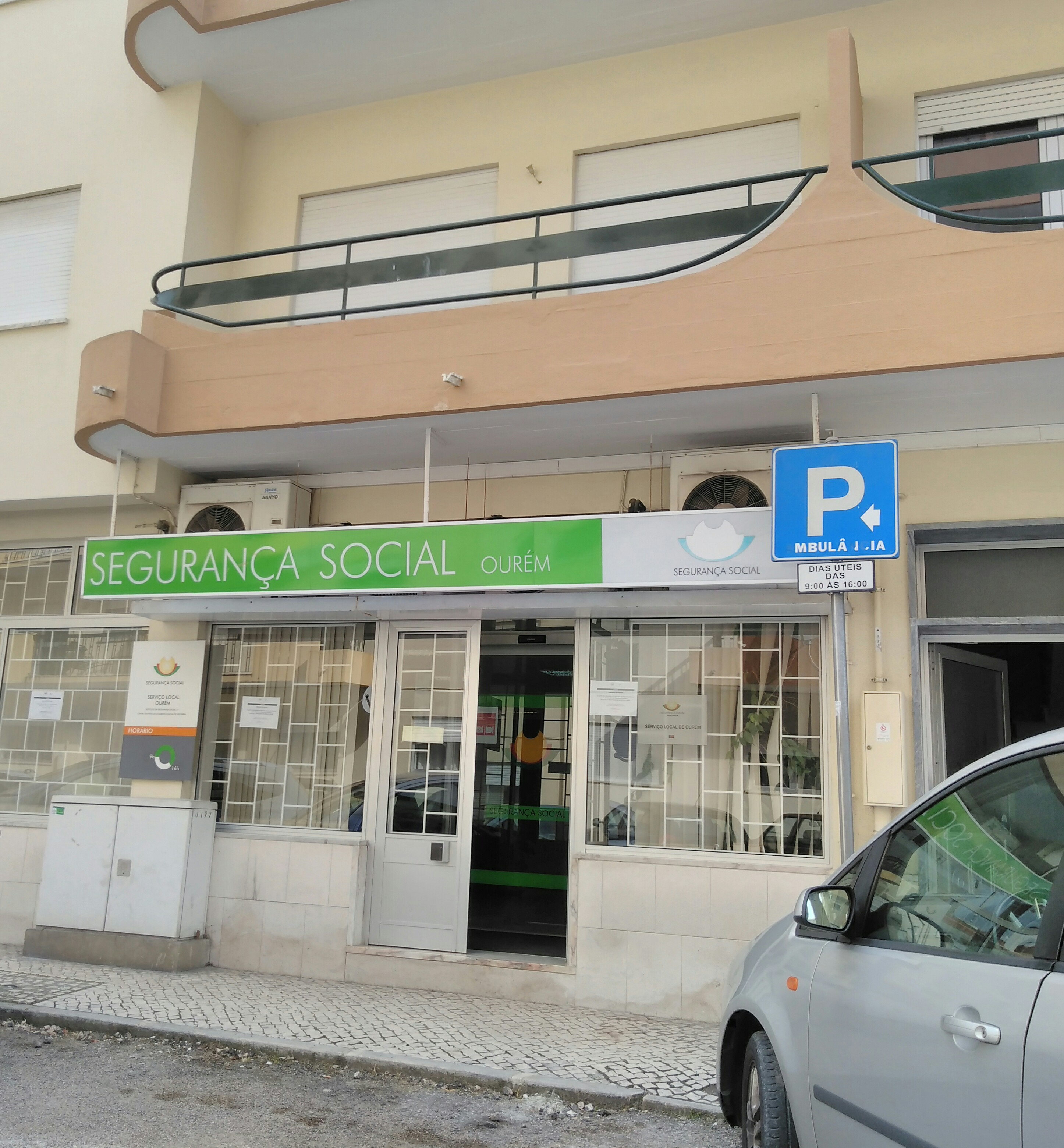 Segurança Social Ourém